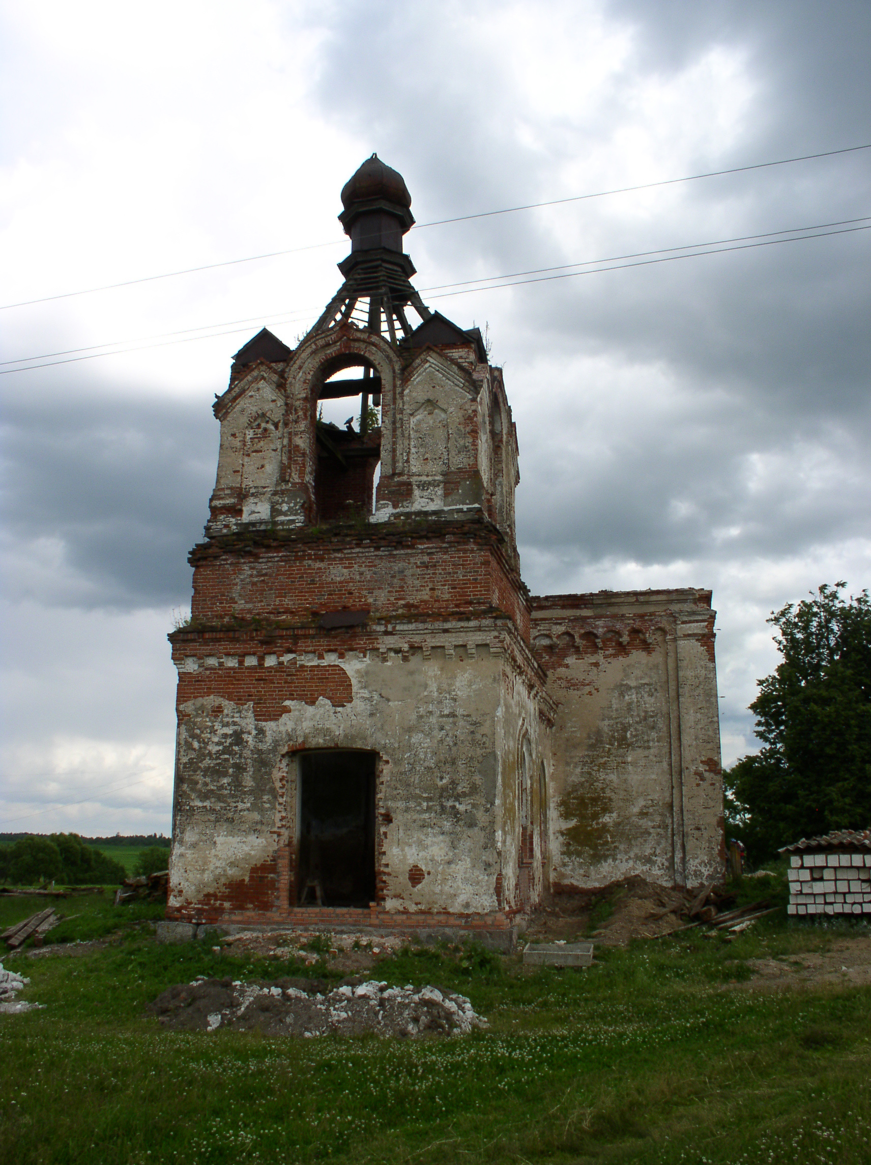 Church of Holy Trinity, Manastyr, Belarus.